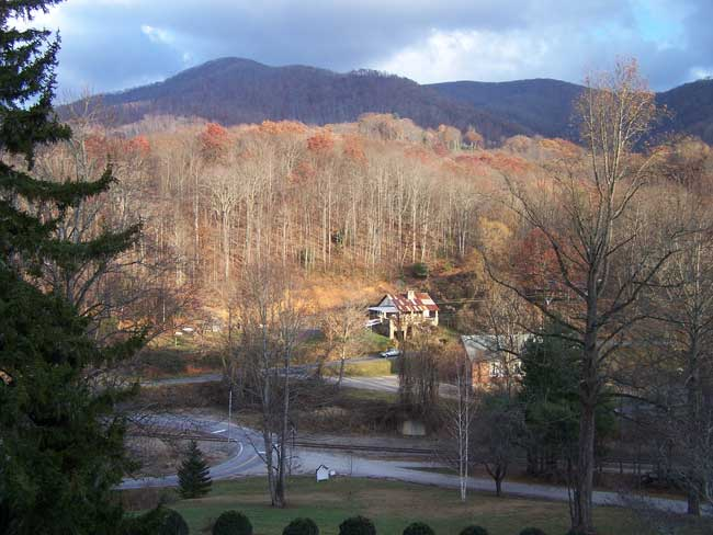 The view of Balsam from the Balsam Mountain Inn. Visible is the Balsam School, former Depot site, and Balsam Depot Road/Old US 19-23.